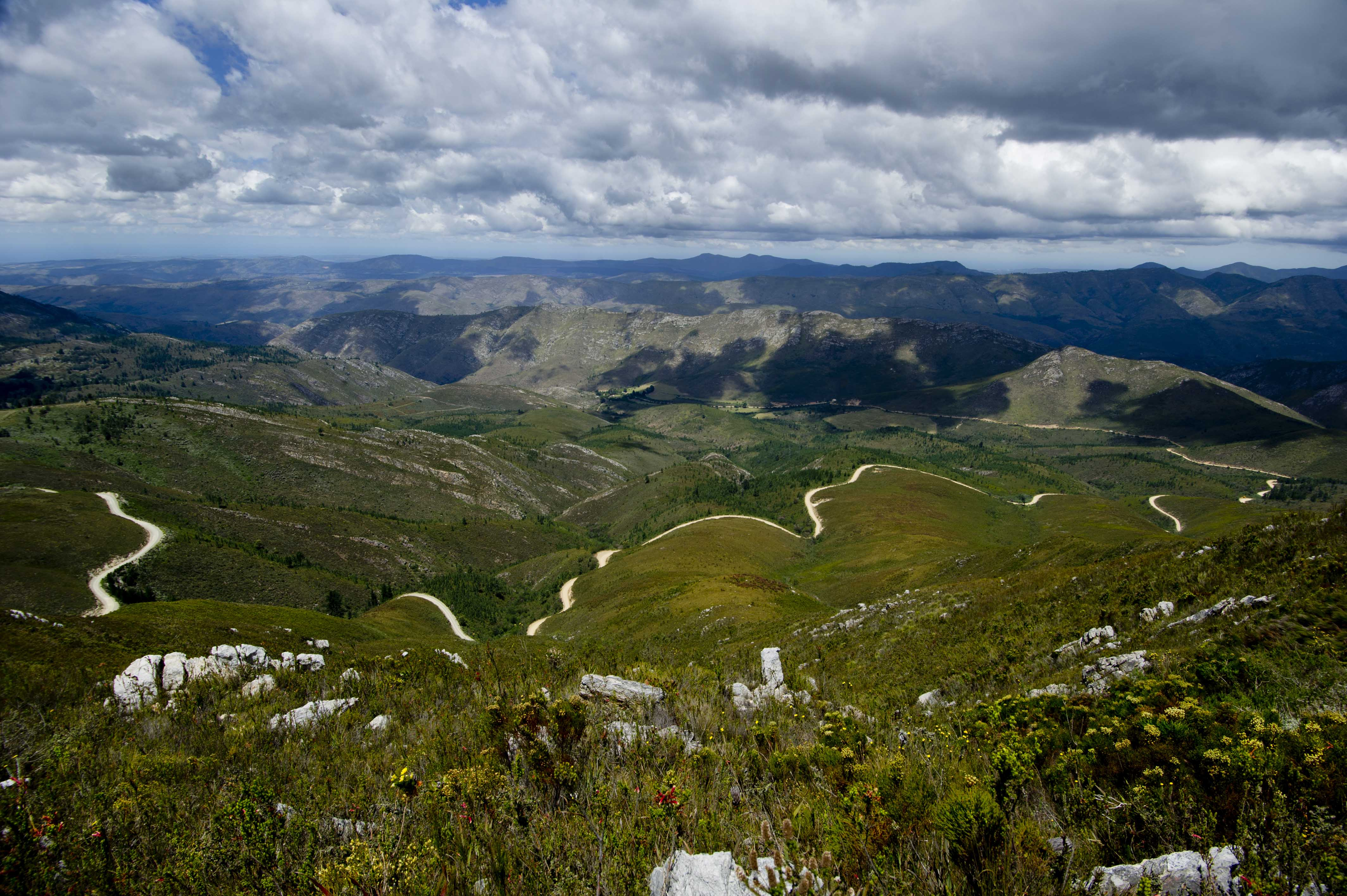 Prince Alfred's Pass